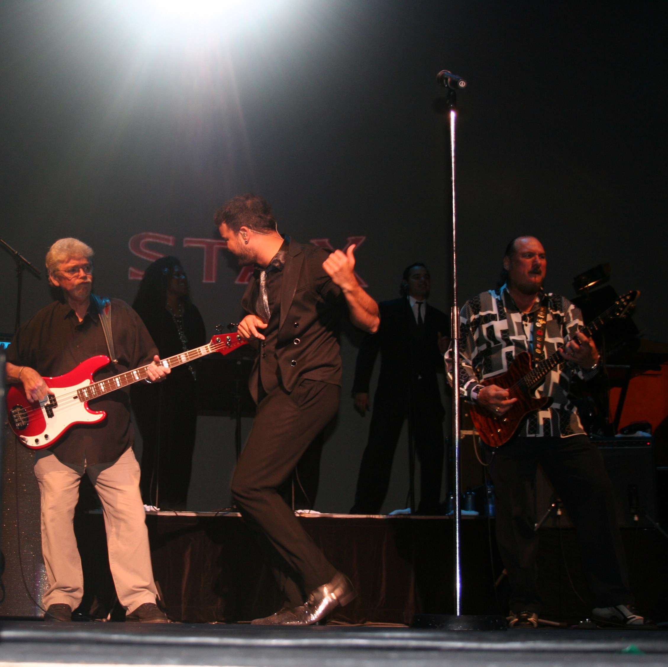 Donald Duck Dunn and Steve Cropper arrived in Australia on the 20th February 2008, to back Guy Sebastian for his 18 date concert tour - The Memphis Tour.